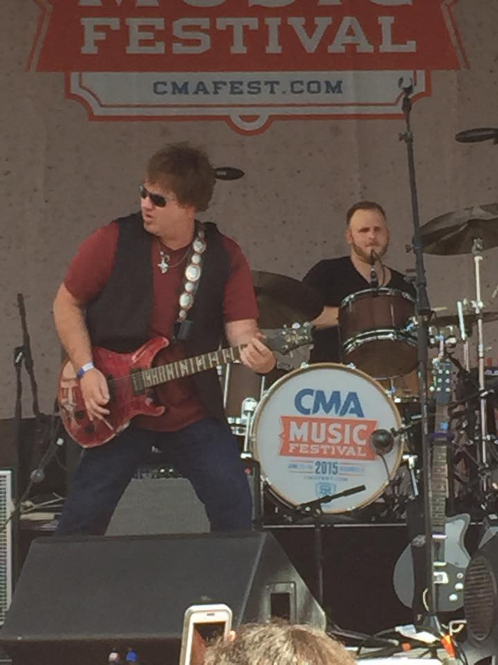 Taken at 2015 CMA fest in Nashville, TN.